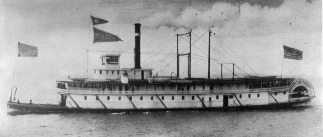 Published in Newell, Gordon R., and Williamson, Joe, Pacific Steamboats, Superior Publishing 1958. Because this work was published before 1964, renewal of the copyright was required in the 28th year following publication to prevent the work from becoming public domain. Uploader has searched the on-line records of the U.S. copyright office and found no record of any renewal of this work under the names of either author or of the publisher.